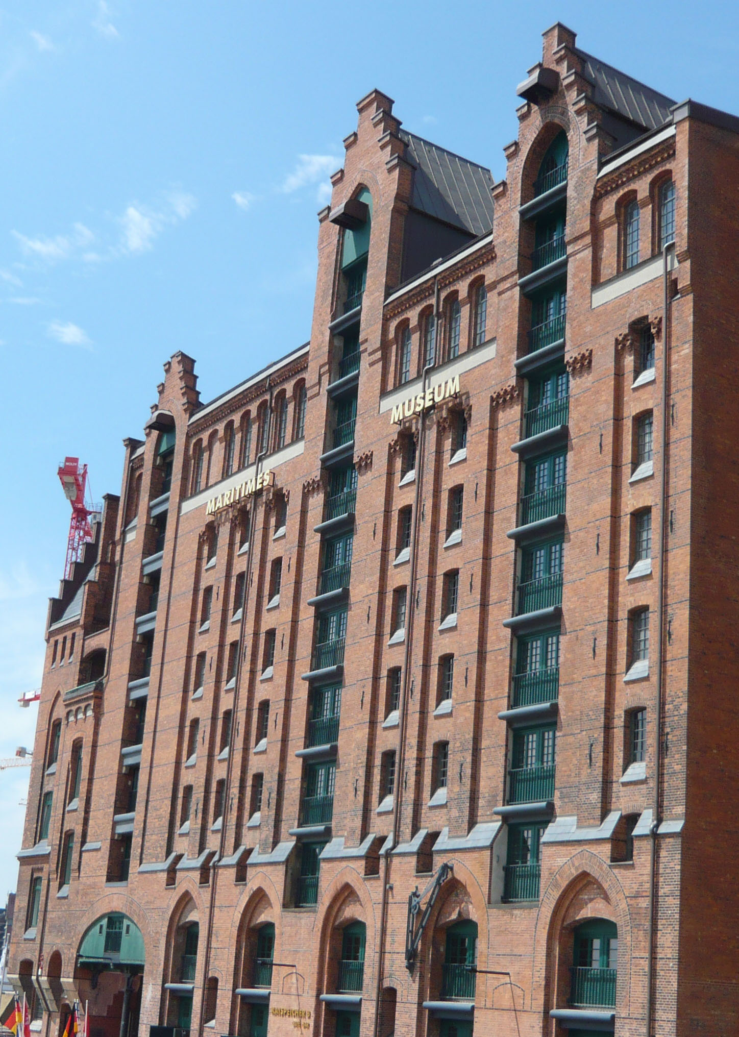 International Maritime Museum, Hamburg, Germany